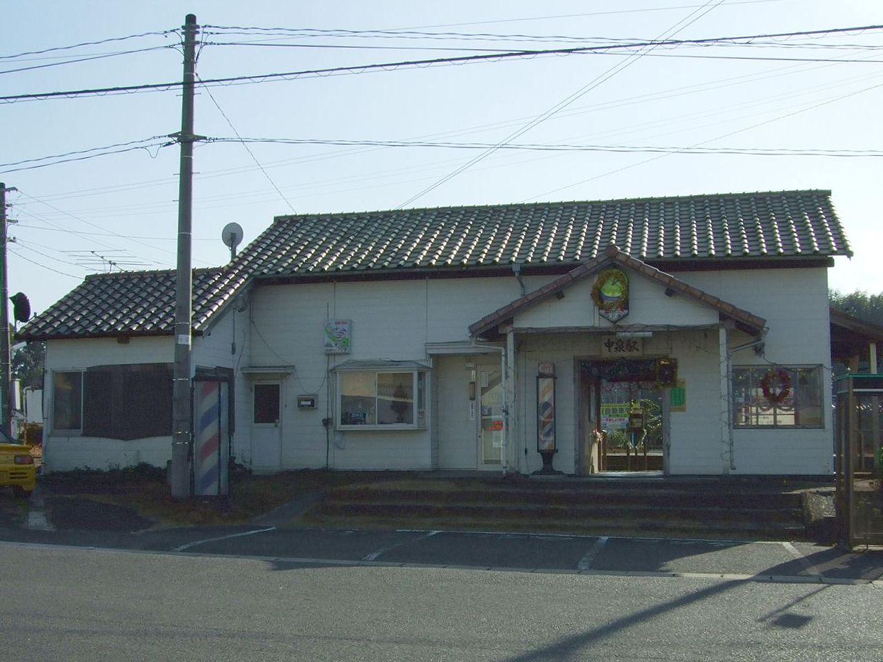 Nakaizumi Station, Ita Line, Heisei Chikuho Railway, Nogata City, Fukuoka, Japan.